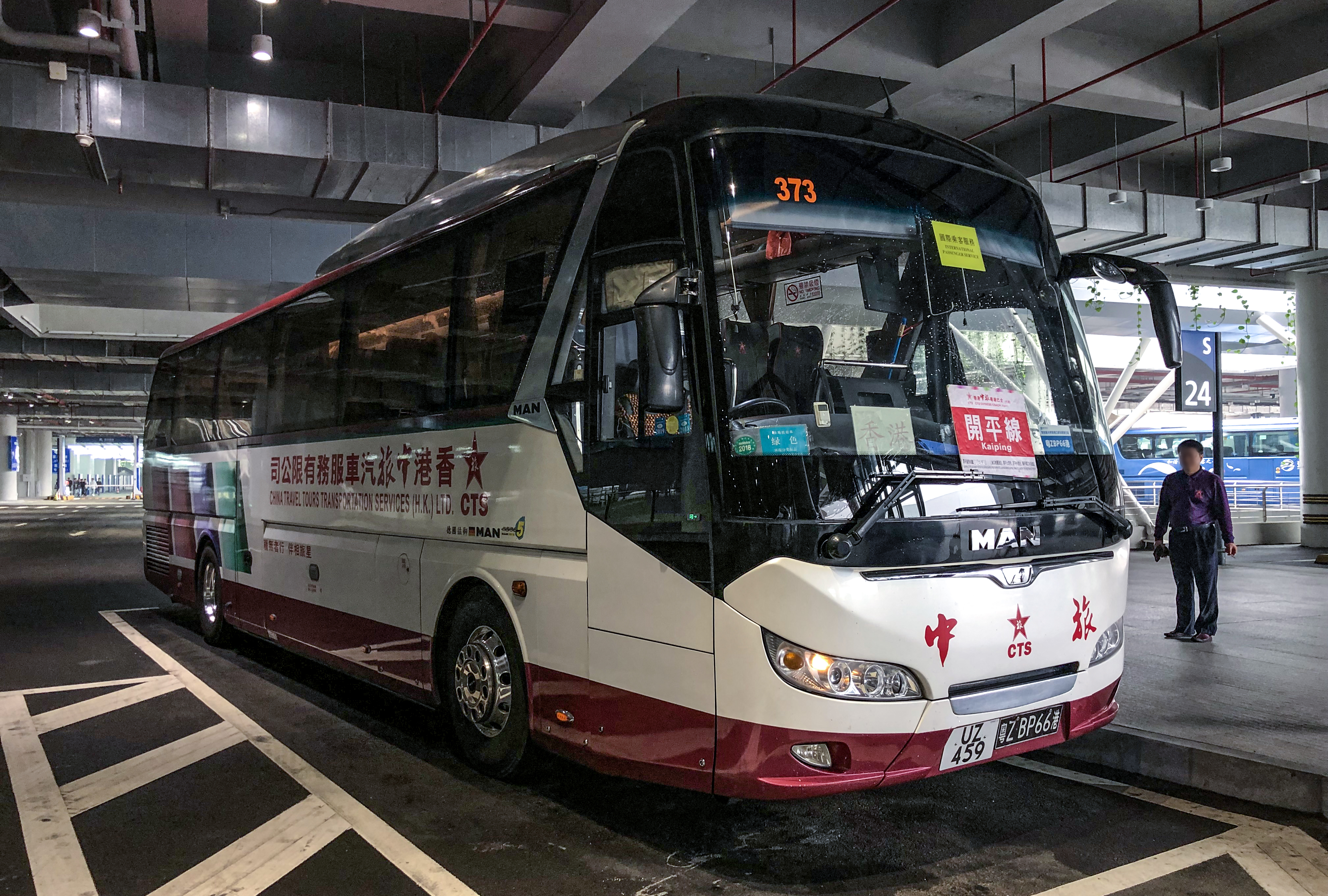 Transferred to another MAN 19.360 heading for Kaiping after passing the Zhuhai port. Only 6 passengers were on board: five heading for RT-Mart, and one to Pan Tower Hotel.